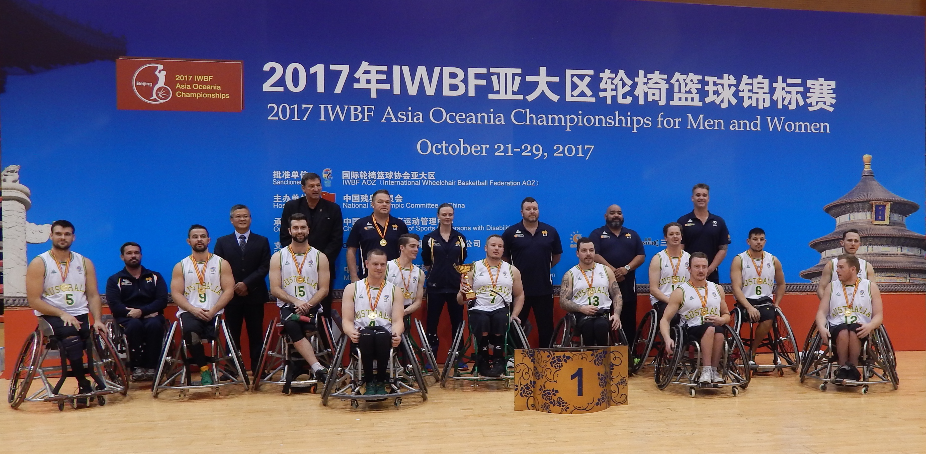 x-default